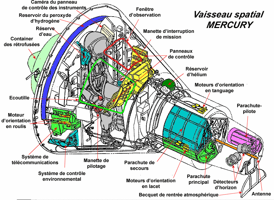 Cutaway of Mercury Spacecraft. French version